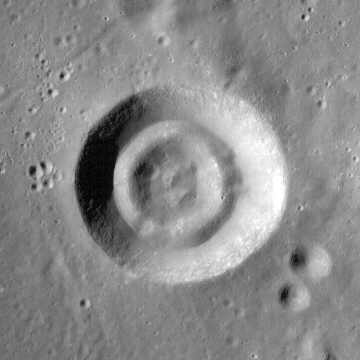 Crater Hesiodus A on the Moon, in Mare Nubium. The best example of rare concentric craters (Wlasuk, 2013). Its diameter is about 15 km. It is number 22 in the list of concentric craters by Wood, 1978. Photo by Lunar Reconnaissance Orbiter, made with Wide Angle Camera on 25 January 2011 from altitude 44 km. Sun elevation is 25.5°. Width of the photo is 25 km, north is approximately up.